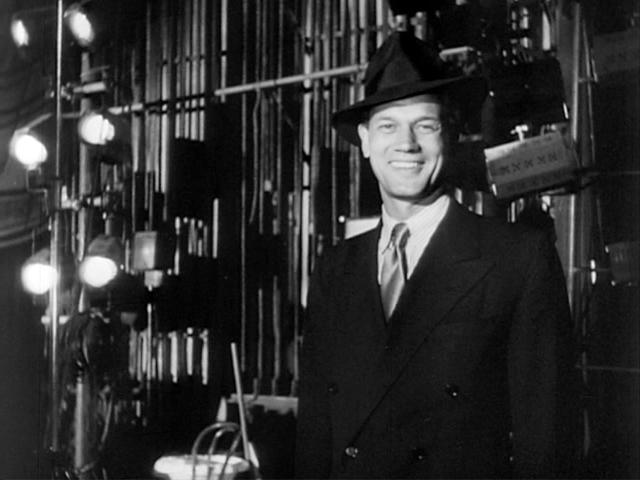 Screenshot of Joseph Cotten from the Citizen Kane trailer